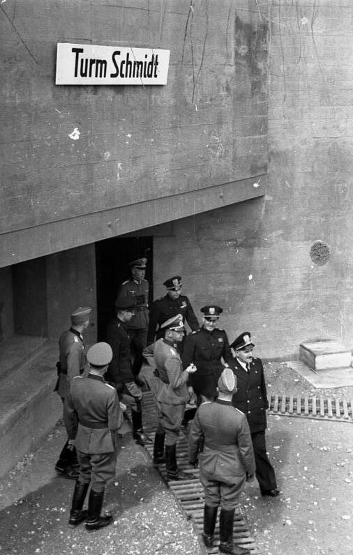 Generaloberst Friedrich Dollmann shows an Italian delegation Turm Schmidt (PK 670), a bunker in the Siegfried Line (Lorraine).